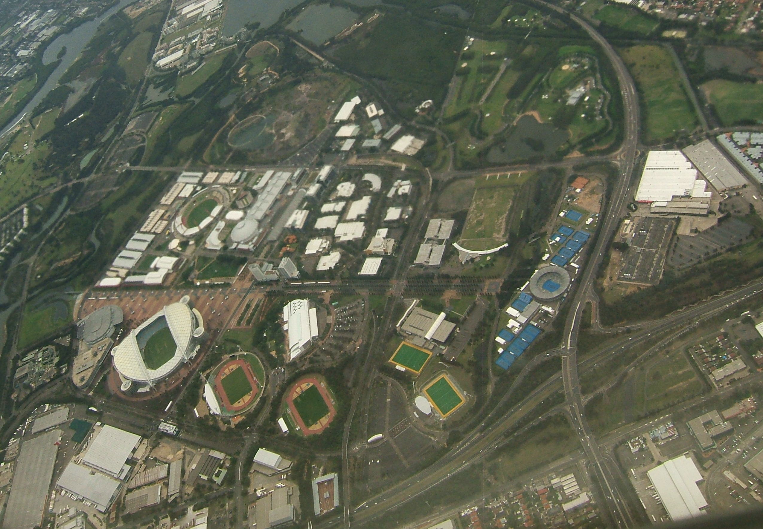 Aerial view of the said location in Sydney